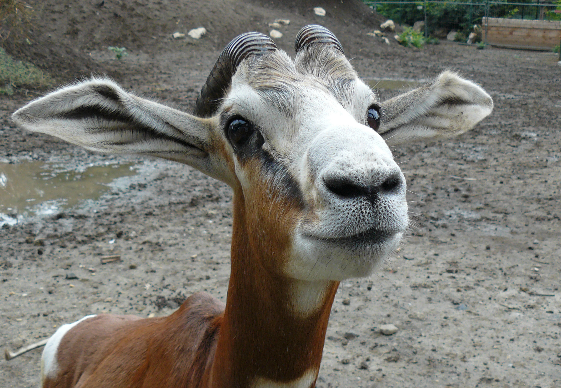 Portrait of a Mhorr Gazelle in Budapest Zoo